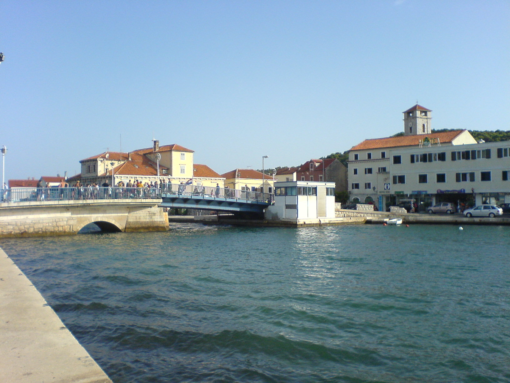 Bridge in Tisno.